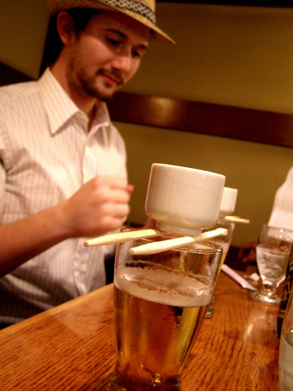 Two sake bombs about to drop